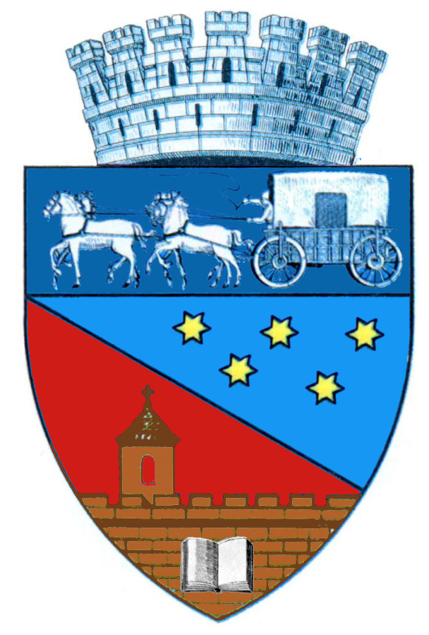 Coat of arms of Râmnicu Vâlcea, Romania.